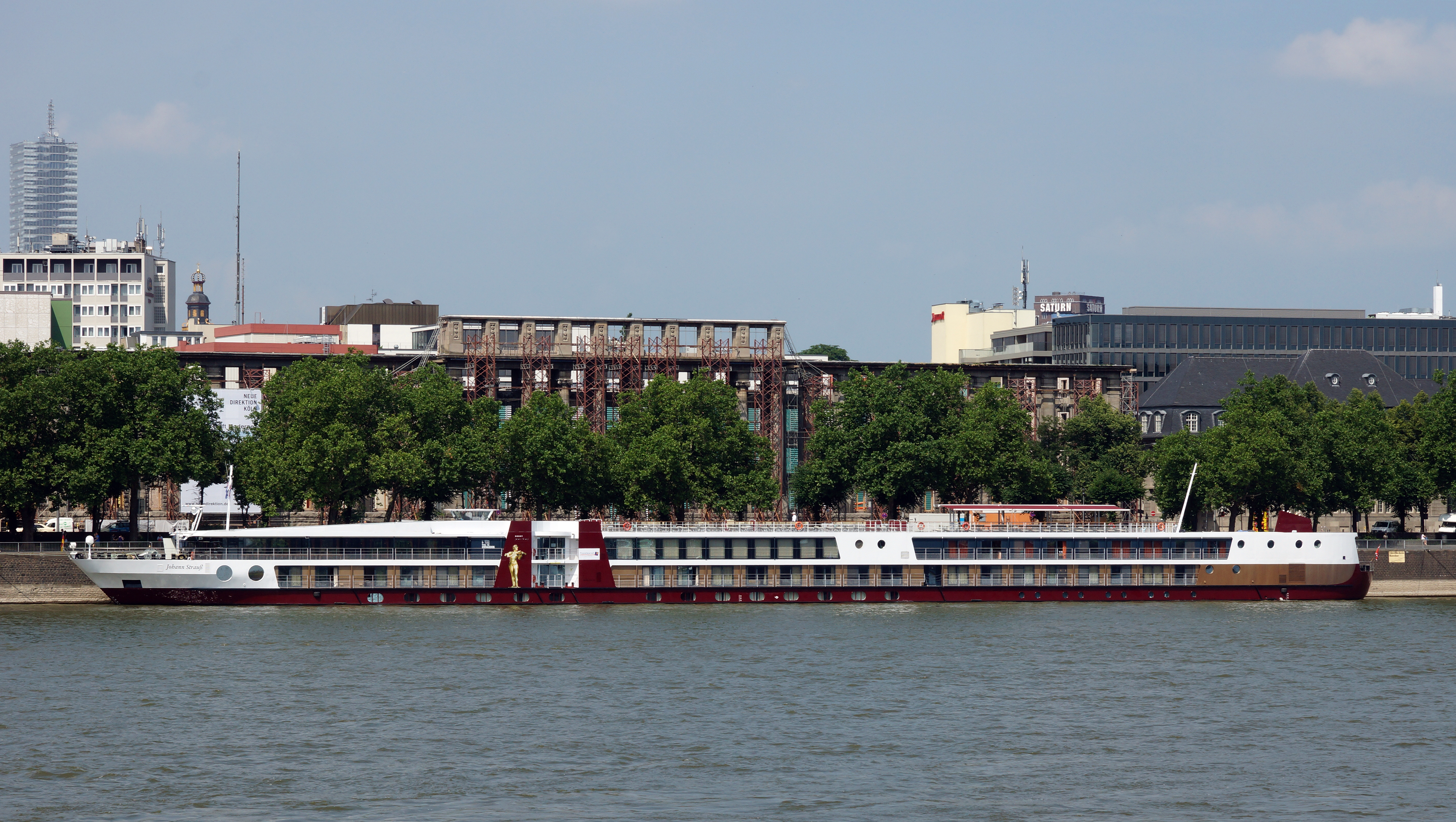 River cruise ship Johann Strauß in Cologne.